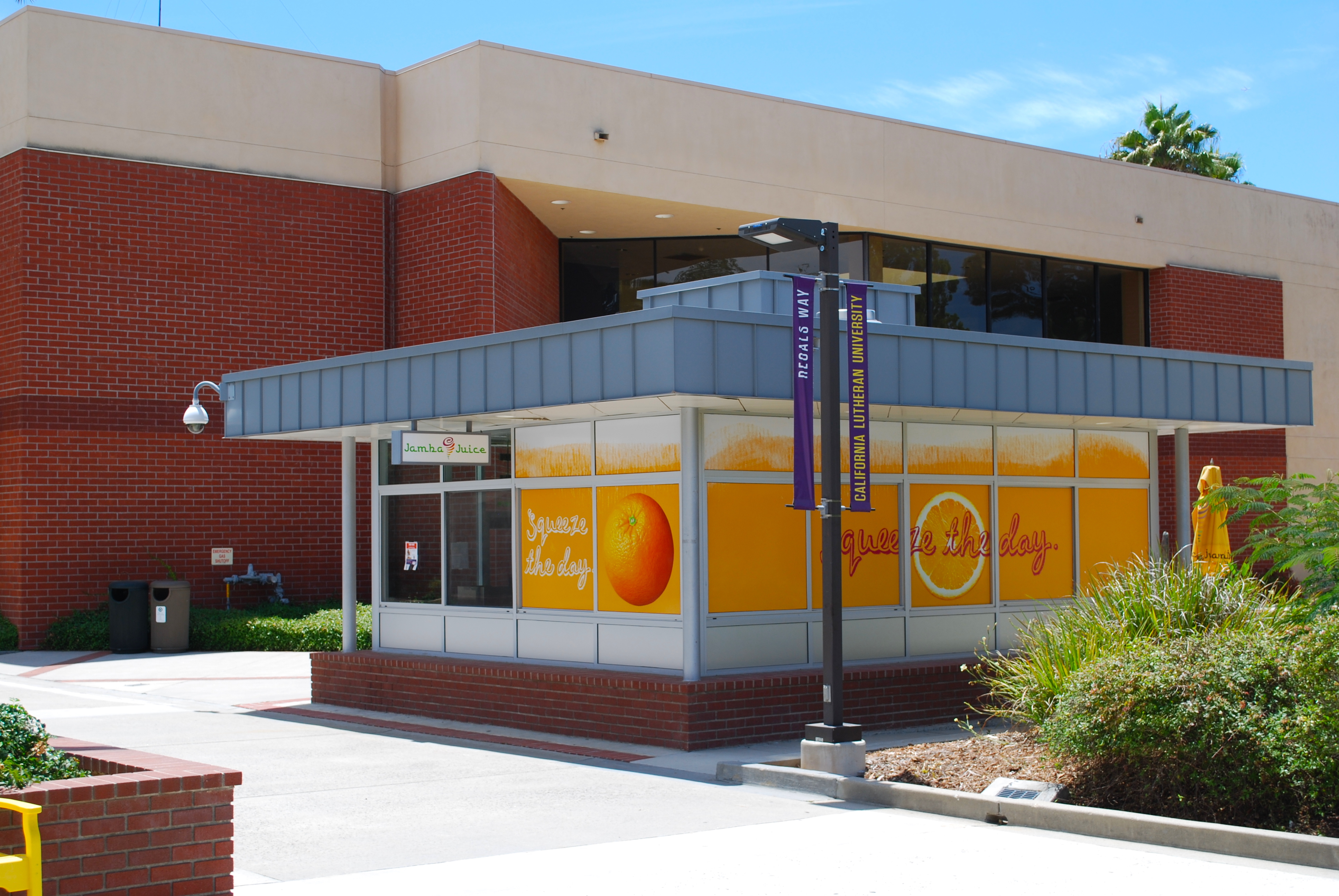 Jamba Juice at California Lutheran University (CLU) in Thousand Oaks, CA.